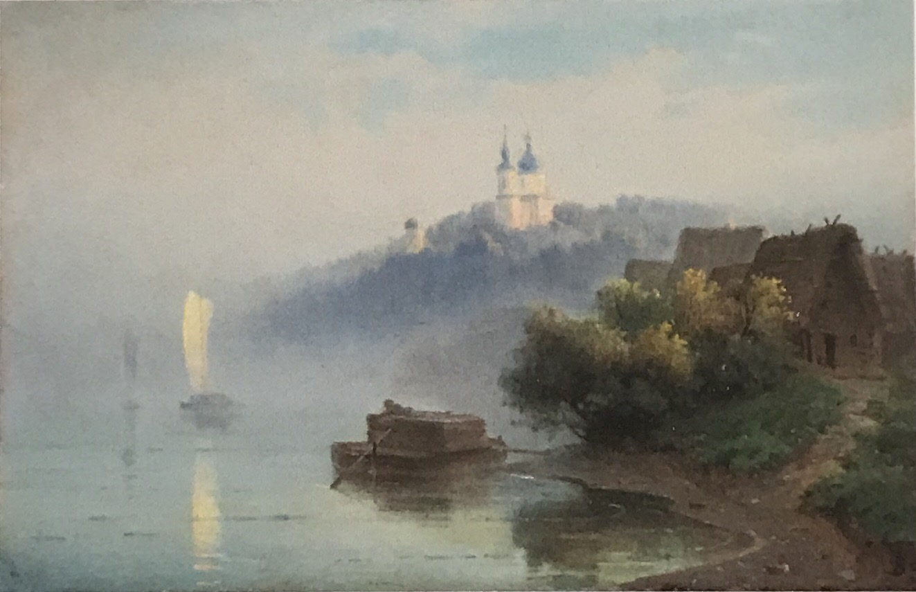 Morning at the Volga (painting, attributed to Fyodor Vasilyev, 1860s-1870s)